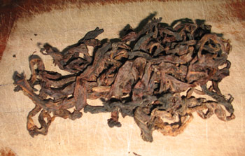 meicai